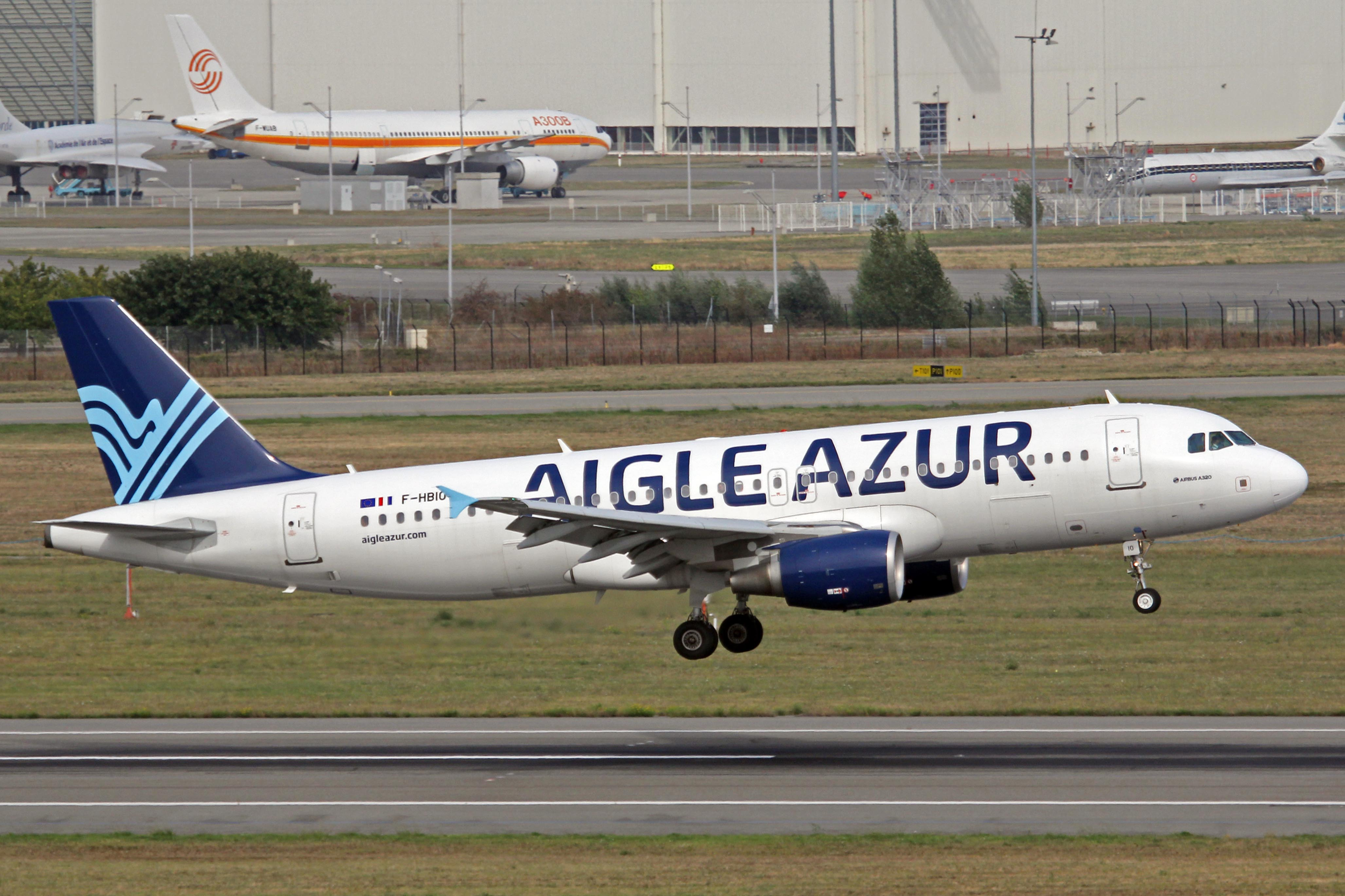 F-HBIO A320-214 Aigle Azur(new c-s) TLS 26SEP13